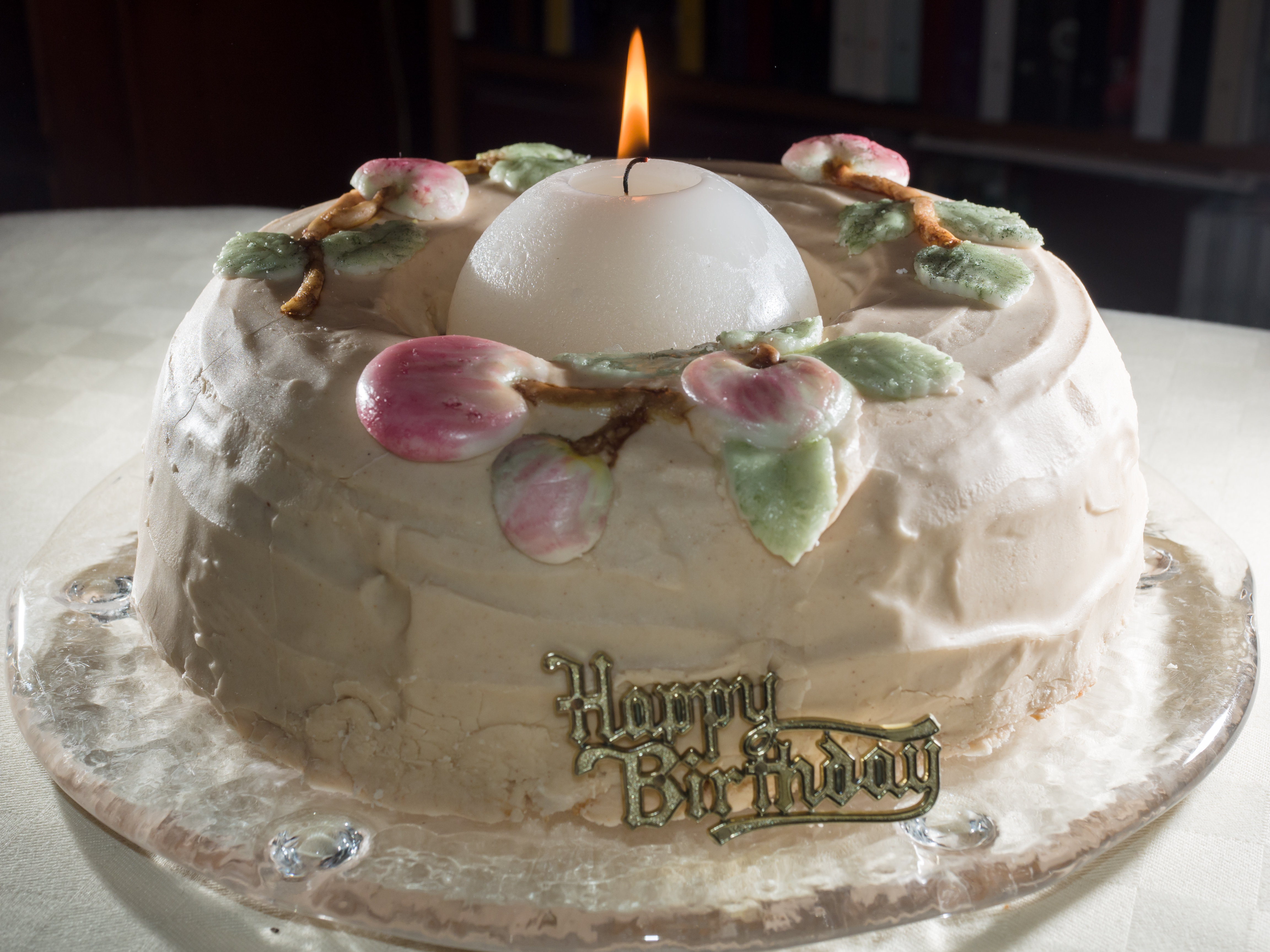 Apple cake, made by my grandmother, iced by my mother and decorated by my father.